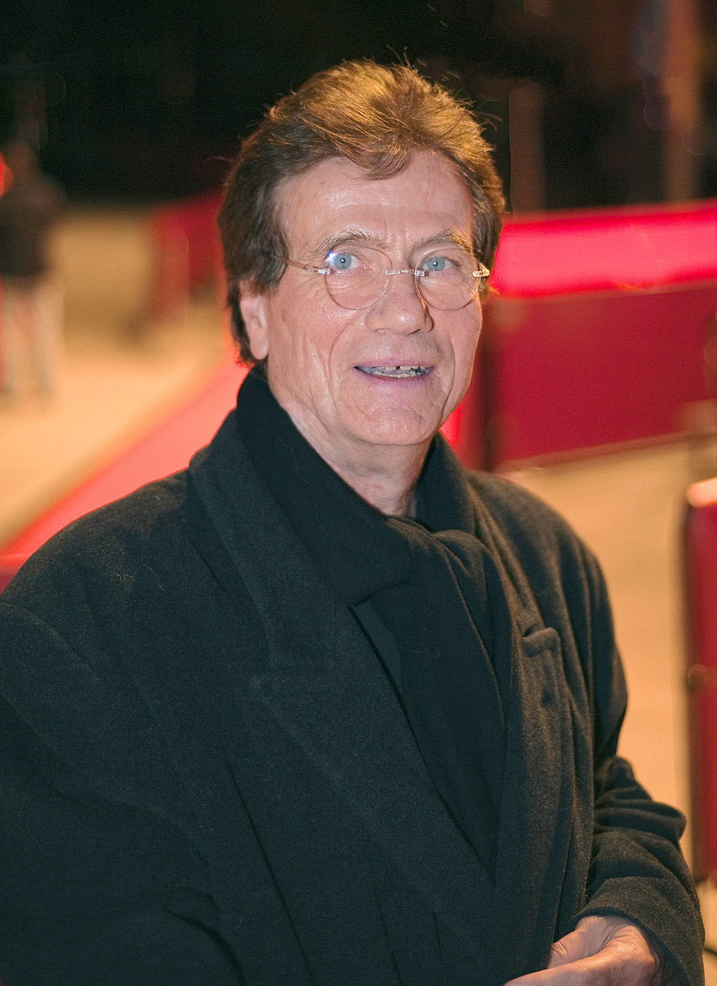 Jürgen Prochnow, German actor (best known for his role as "Capt.-Lt. Henrich Lehmann-Willenbrock - Der Alte" in "Das Boot" (1981); Opening of the 59th Berlin International Film Festival